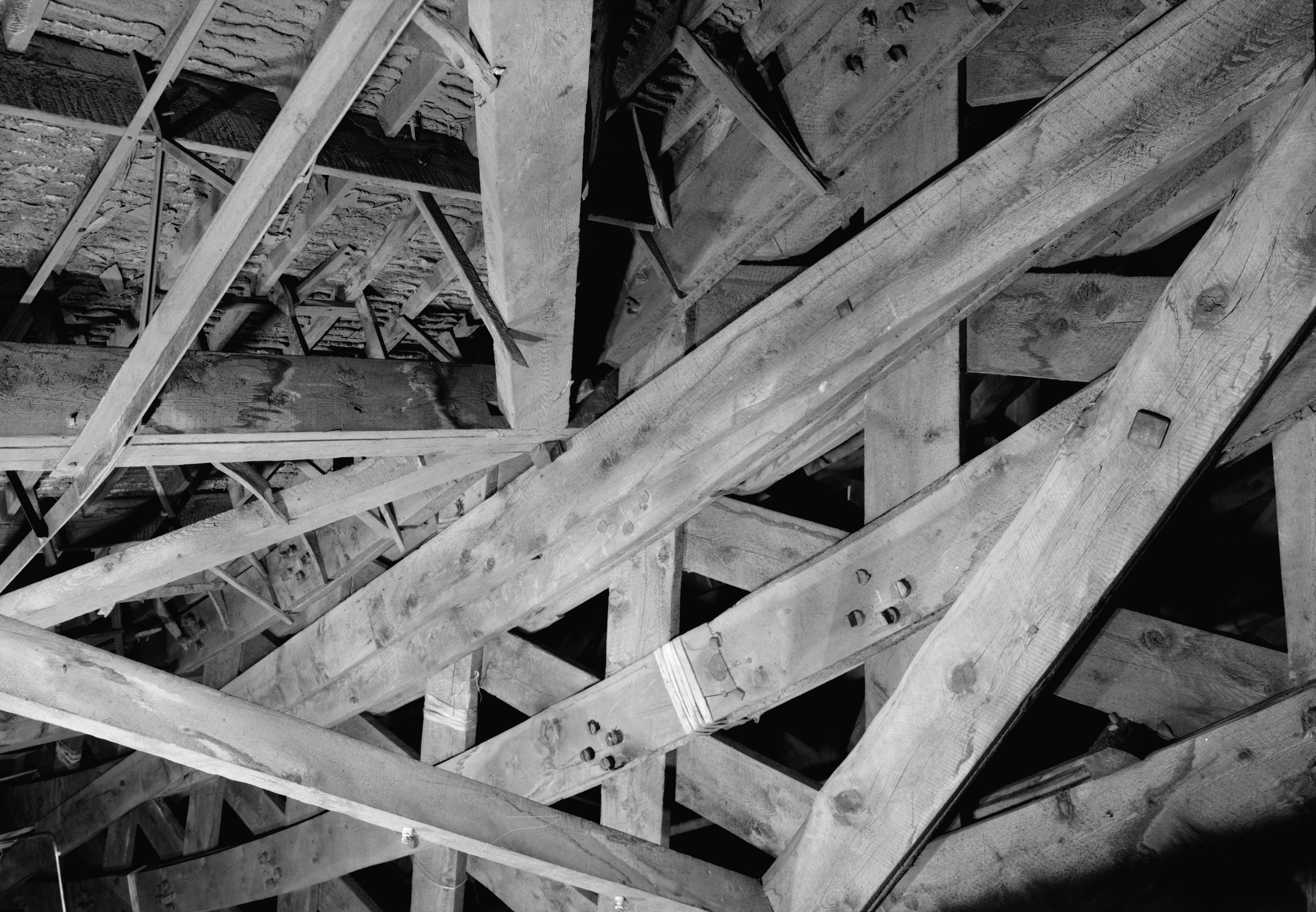 Detail of the carpentry roof of the domed Salt Lake Tabernacle of The Church of Jesus Christ of Latter-day Saints. Note the wooden pegs and beams bound together by strips of rawhide.